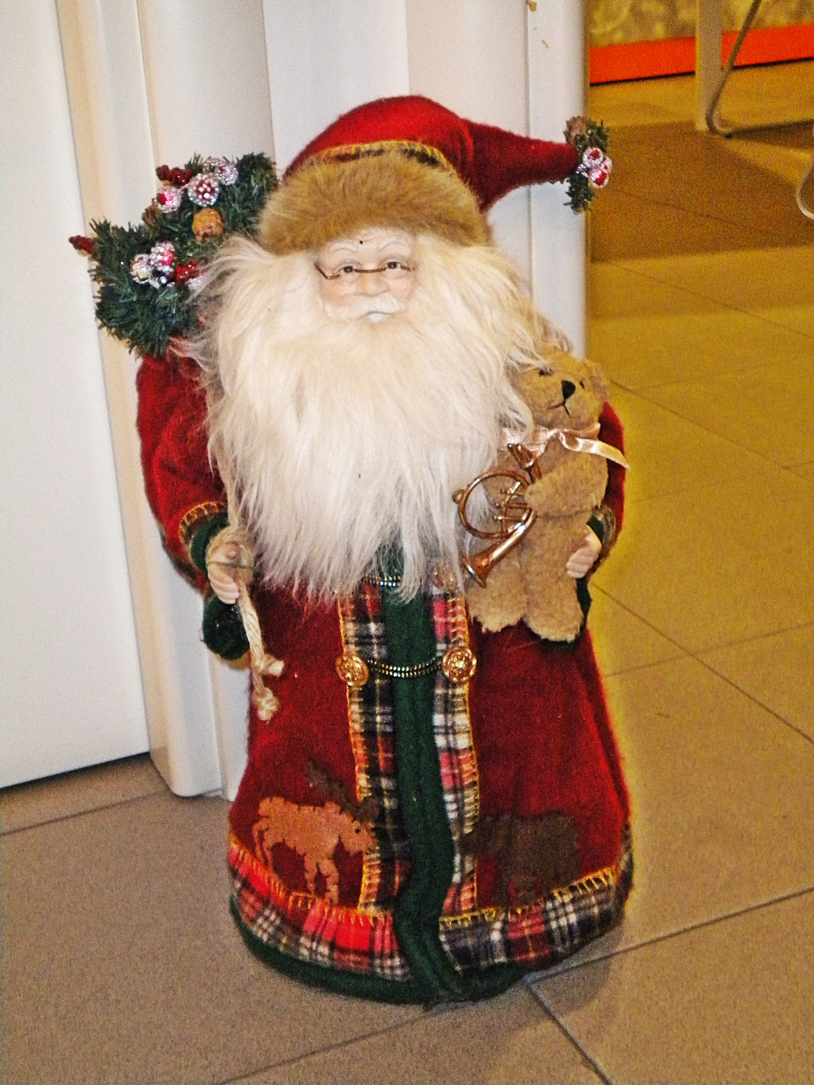 santa claus